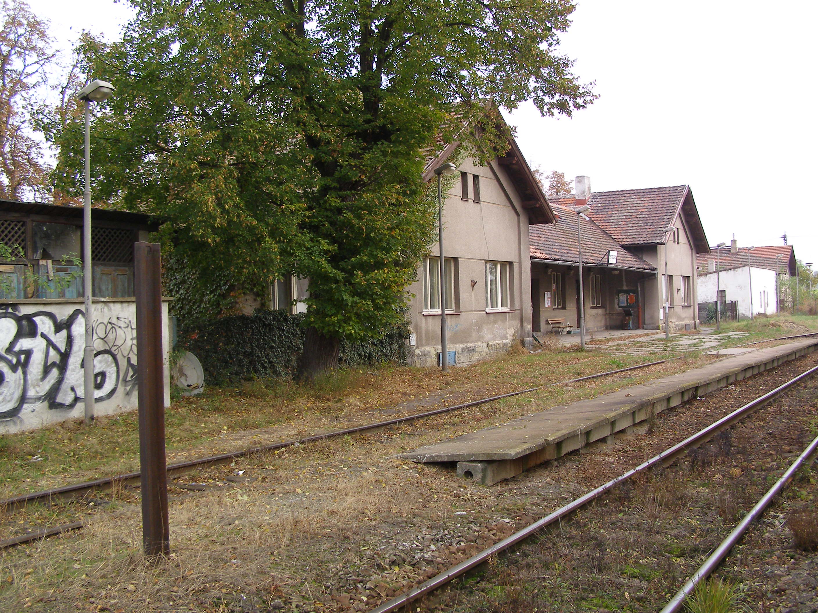 Kostelec nad Labem - rail station